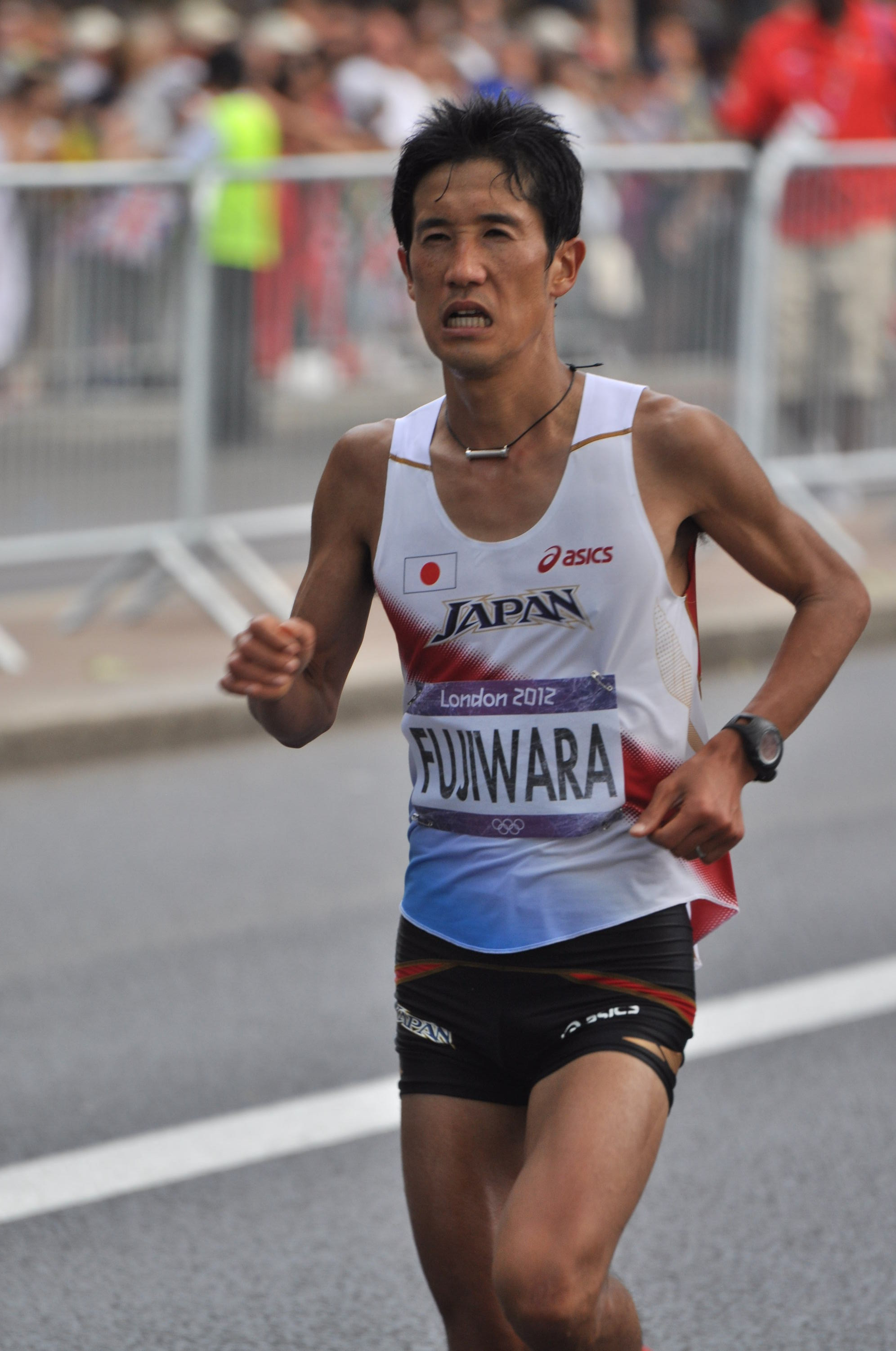 The men's marathon of the 2012 Summer Olympics in London, UK took place on an Olympic marathon street course on Sunday 12th August 2012 at 11:00. This was the final day of the 30th Olympic Games. The London 2012 marathon course is the standard Olympic distance of 26 miles 385 yards and consists of one short lap of approx 2.2 miles followed by three longer laps of 8 miles. The course began on The Mall and travelled past several of the most famous London landmarks. The start/finish line was near the Victoria Memorial. These photographs were taken at the Victoria Embankment. This featured several times on the looped course. The approximate location from the photographs is shown in the Google StreetView Link below. Stephen Kiprotich won in 2 hours, 8 minutes, 1 second as he pulled away from the Kenyan duo of Abel Kirui and Wilson Kiprotich Kipsang. These photographs are unofficial photographs. They are not endorsed by London 2012. There are not commercially available. They are available for use under a Creative Commons License. Please link back to the photograph on my Flickr account if you use the image.